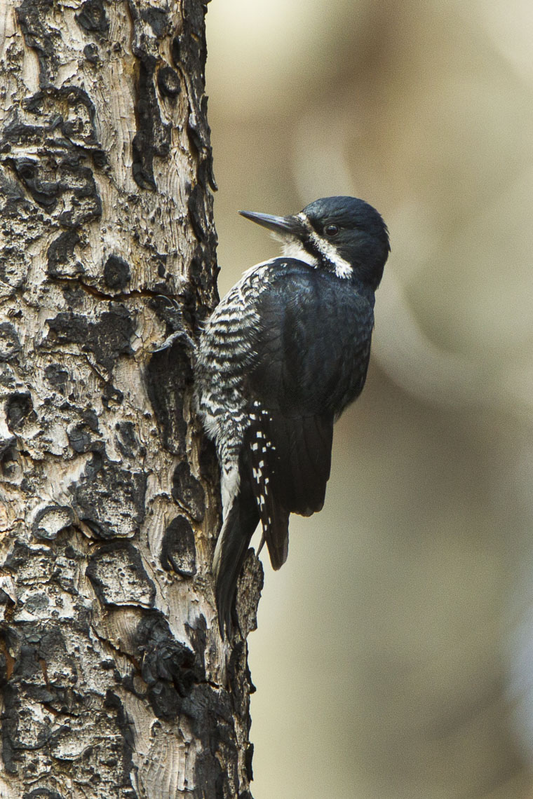 Black-backed Woodpecker - Sisters - Oregon_S4E8440